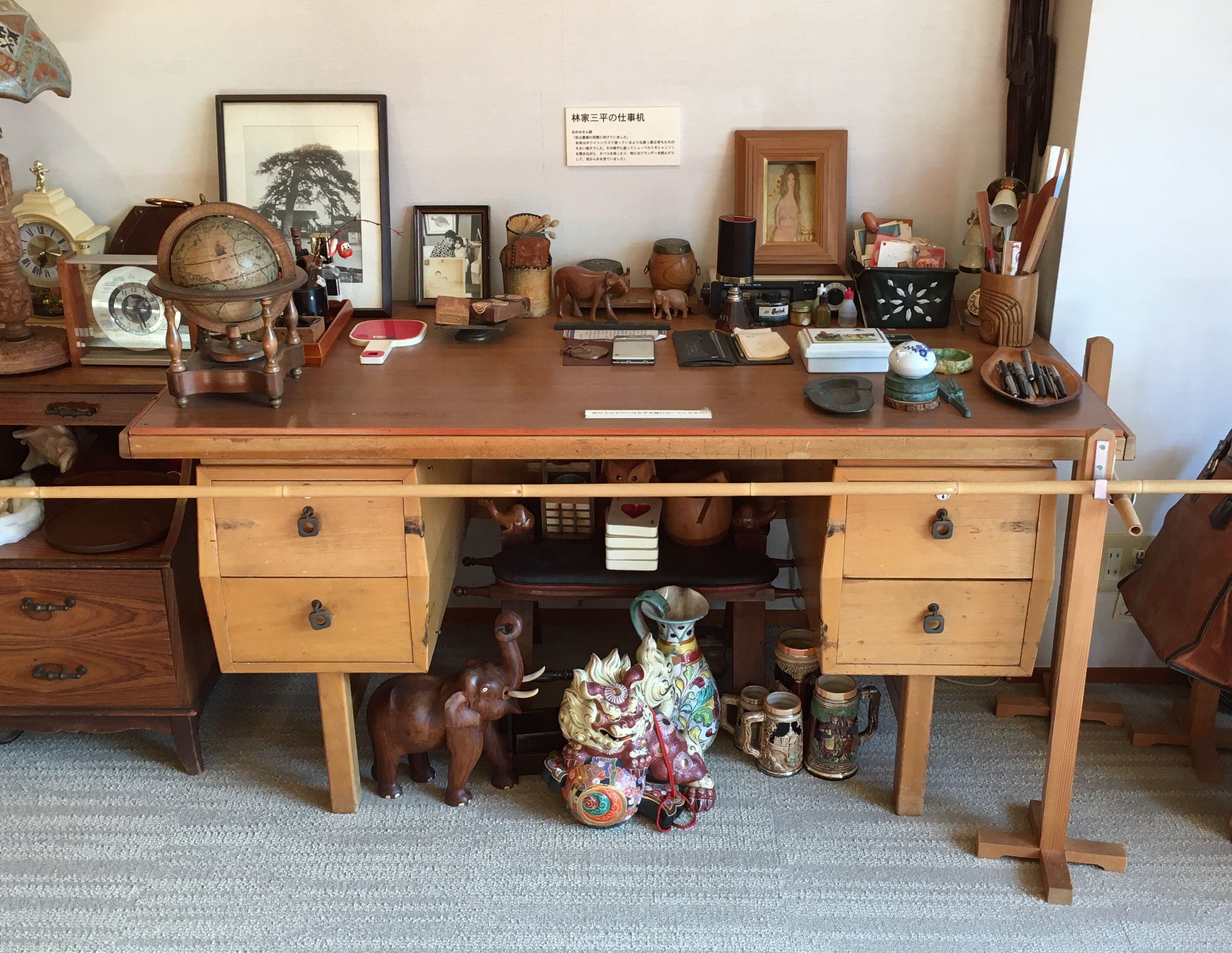 Work desk of Hayashiya Sanpei I